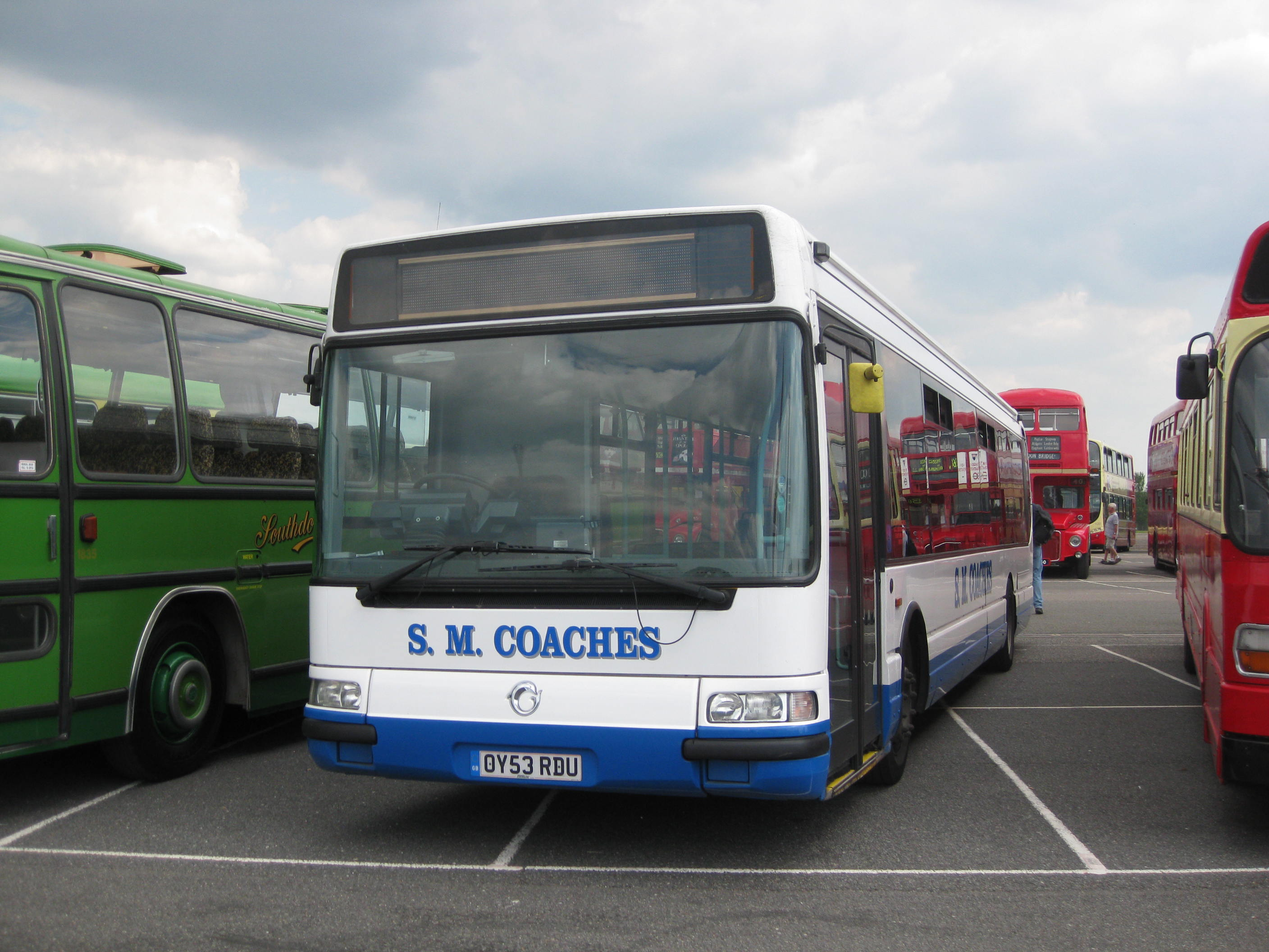 S M Coaches OY53RDU at the 2011 North Weald Bus Rally. This a former Norsebus vehicle.